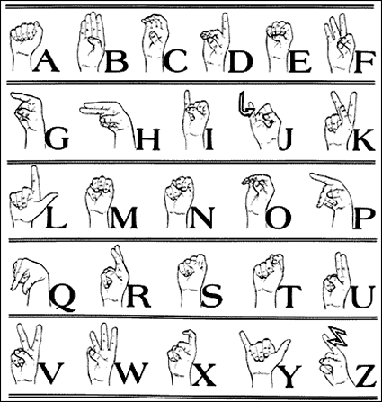 American Sign Language Symbols